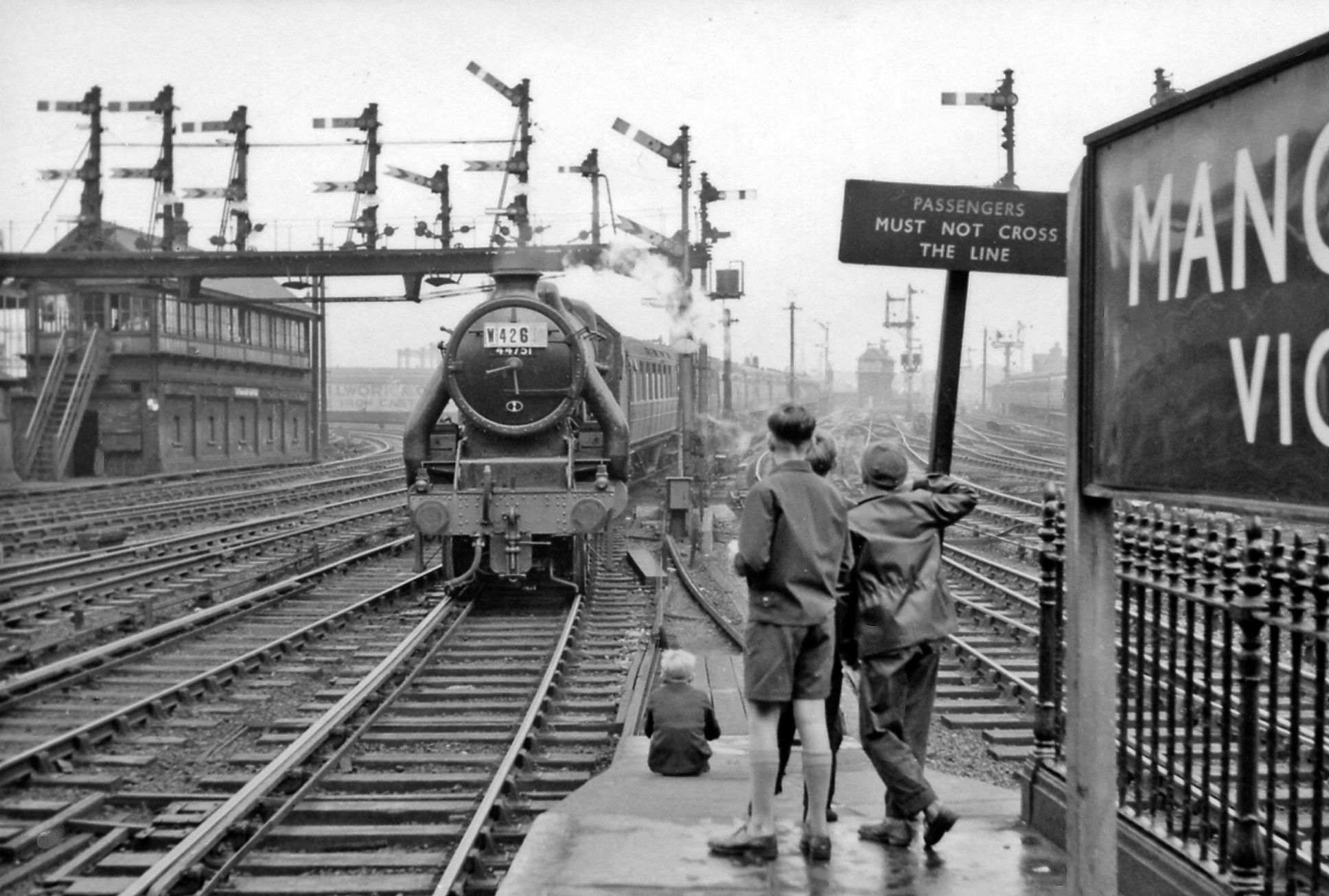 Westbound express entering Manchester Victoria/Exchange, with train-spotters. View eastward from the east end of the long through platform (Nos. 11/3) at Manchester Victoria/Exchange: ex-L&Y main lines, up the bank towards Miles Platting and Yorkshire. On the left is Victoria East Box, which controlled the junction with the Manchester Loop to Cheetham Hill Junction and Thorpes Bridge Junction. It was perhaps the busiest Summer Saturday ever (3 September 1960), because London Road Station was in the throws of major rebuilding to the new Piccadilly Station and most express to/from the South and London were being diverted from there via Ardwick Junction, Philips Park and Oldham Road Junction. The train approaching (W426) is probably one of these - admired by a bevvy of spotters: the locomotive is Stanier/Ivatt 5MT 4-6-0 No. 44751 (built 3/48 and fitted with Caprotti valve gear and roller-bearings, withdrawn 10/64). I was there for 2½ hours, during which no less than 36 expresses (26 with Stanier Black 5s) came past, plus empty stock, light engines etc. (I also recorded the great cacophony of sound).